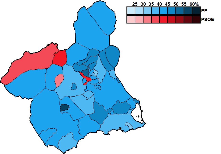 Most-voted party in Murcia municipalities, showing vote share obtained, in the Spanish general election, 2015.